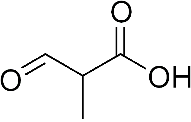 chemical structure of 2-methyl-3-oxopropanoic acid (Methylmalonate semialdehyde)